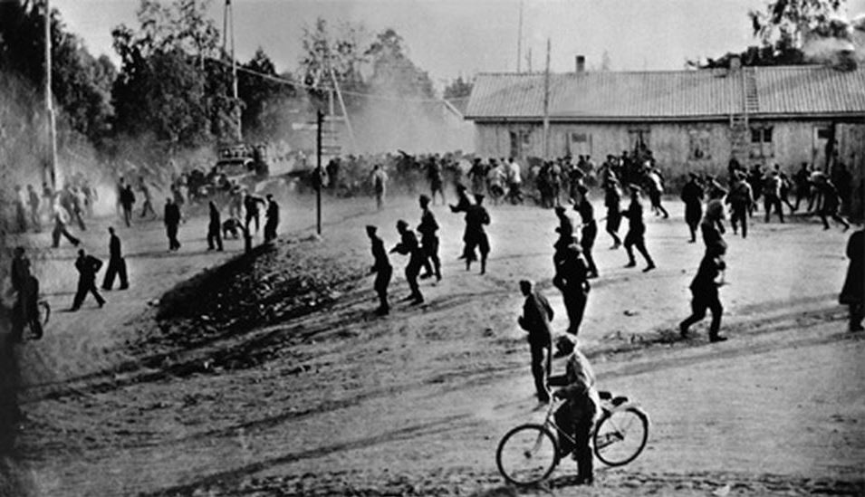 Violent clash between police and protesters during the 1949 Kemi strike. 18 August 1949, Kemi, Finland.